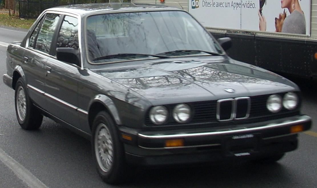 BMW E30 3-Series sedan photographed in Montreal, Quebec, Canada.